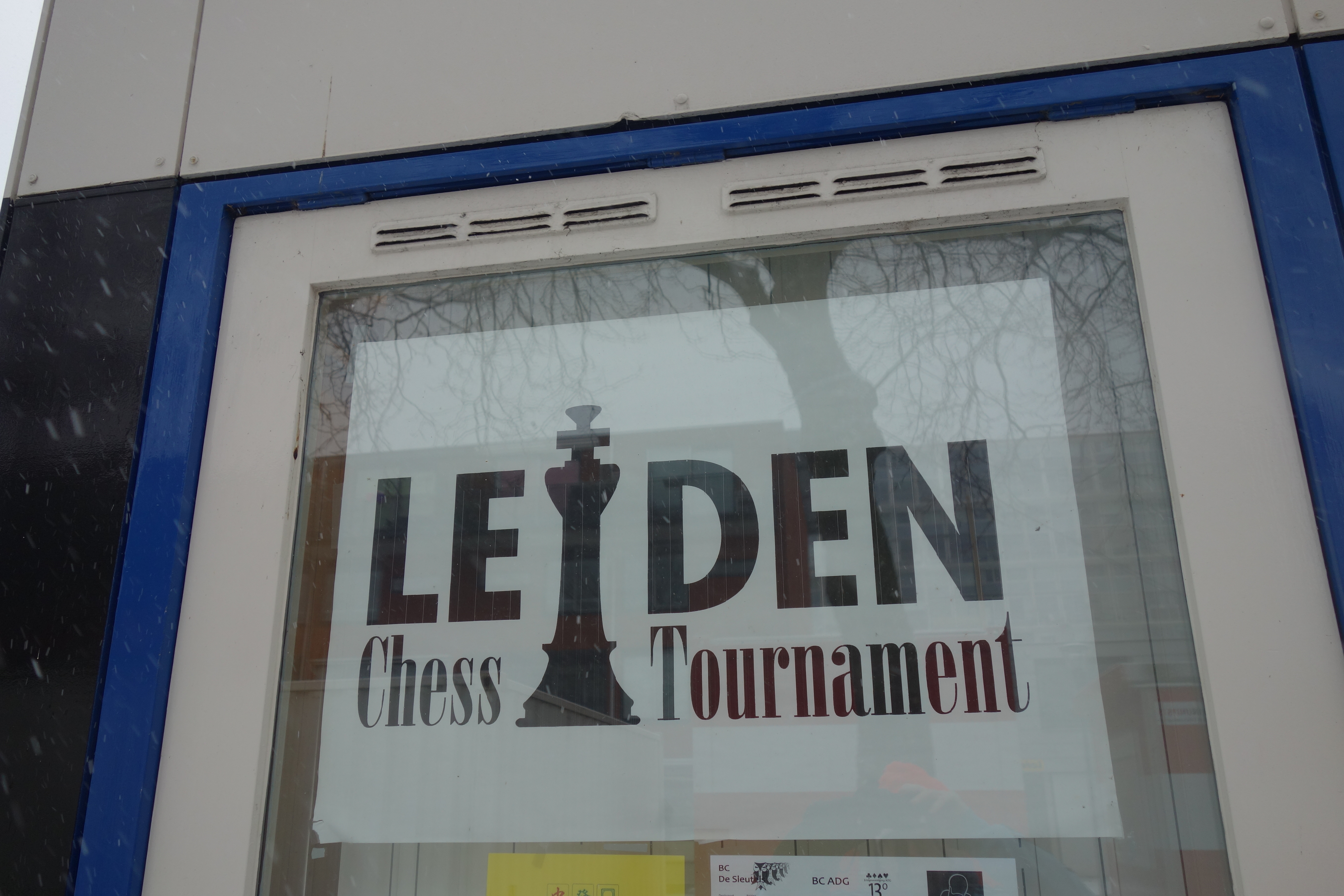 Leiden Chess Tournament (NL)